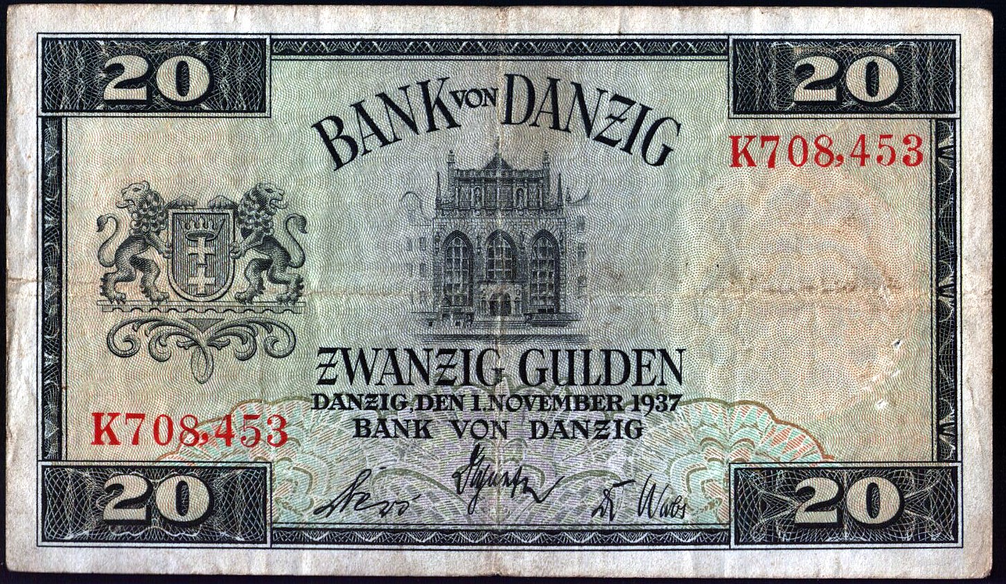 20 guldens of the Free City of Danzig